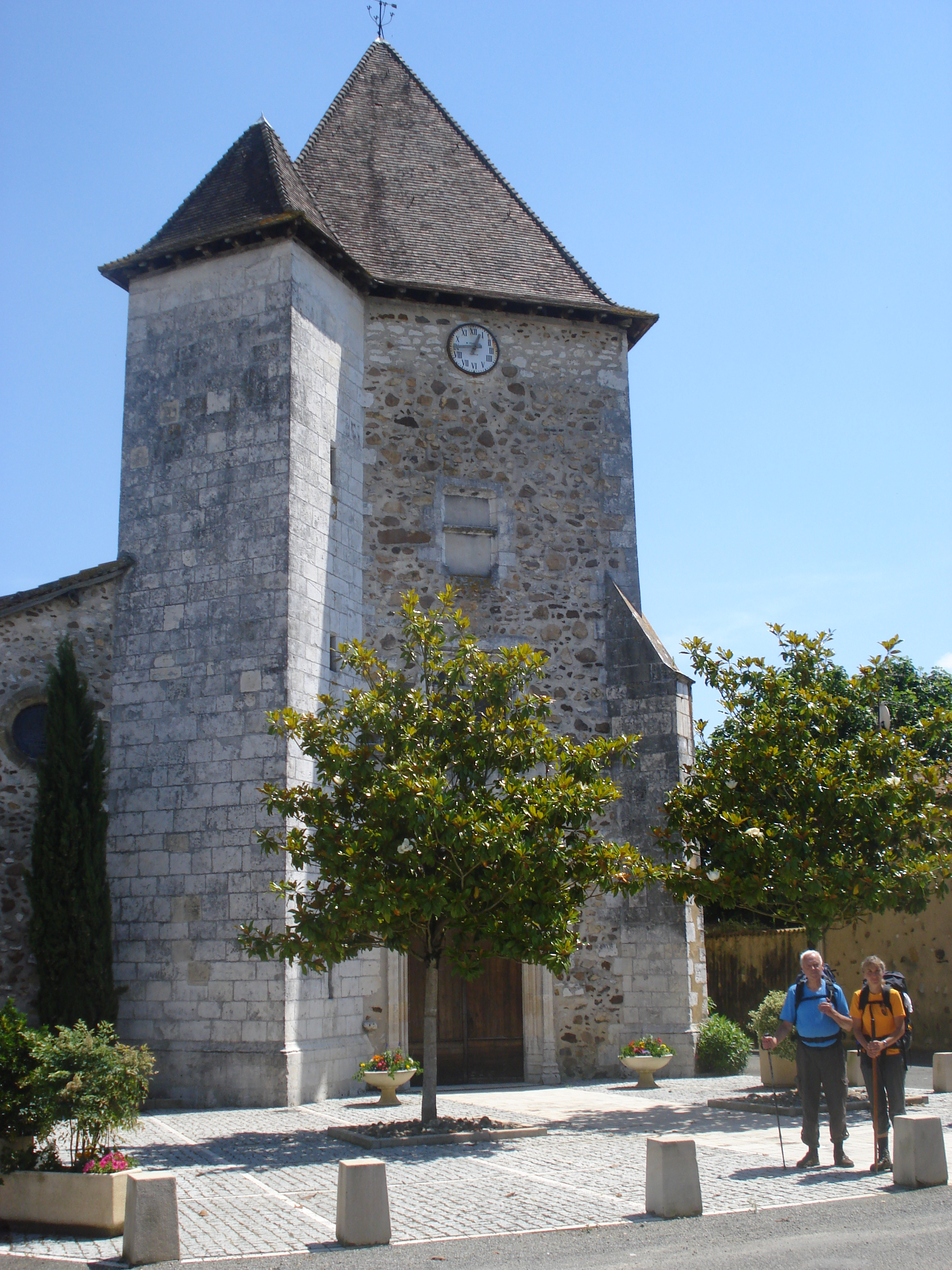 Horsarrieu (Landes, Fr), pilgrims in front of the church